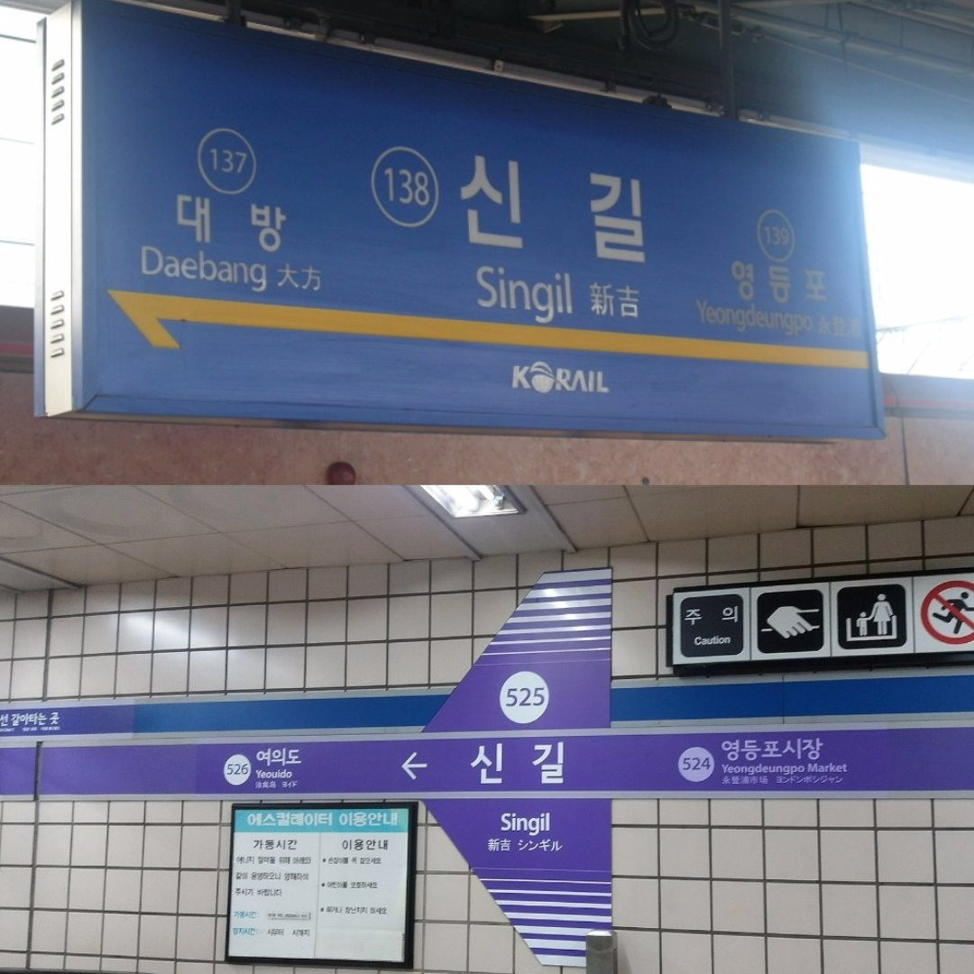 Singil Station